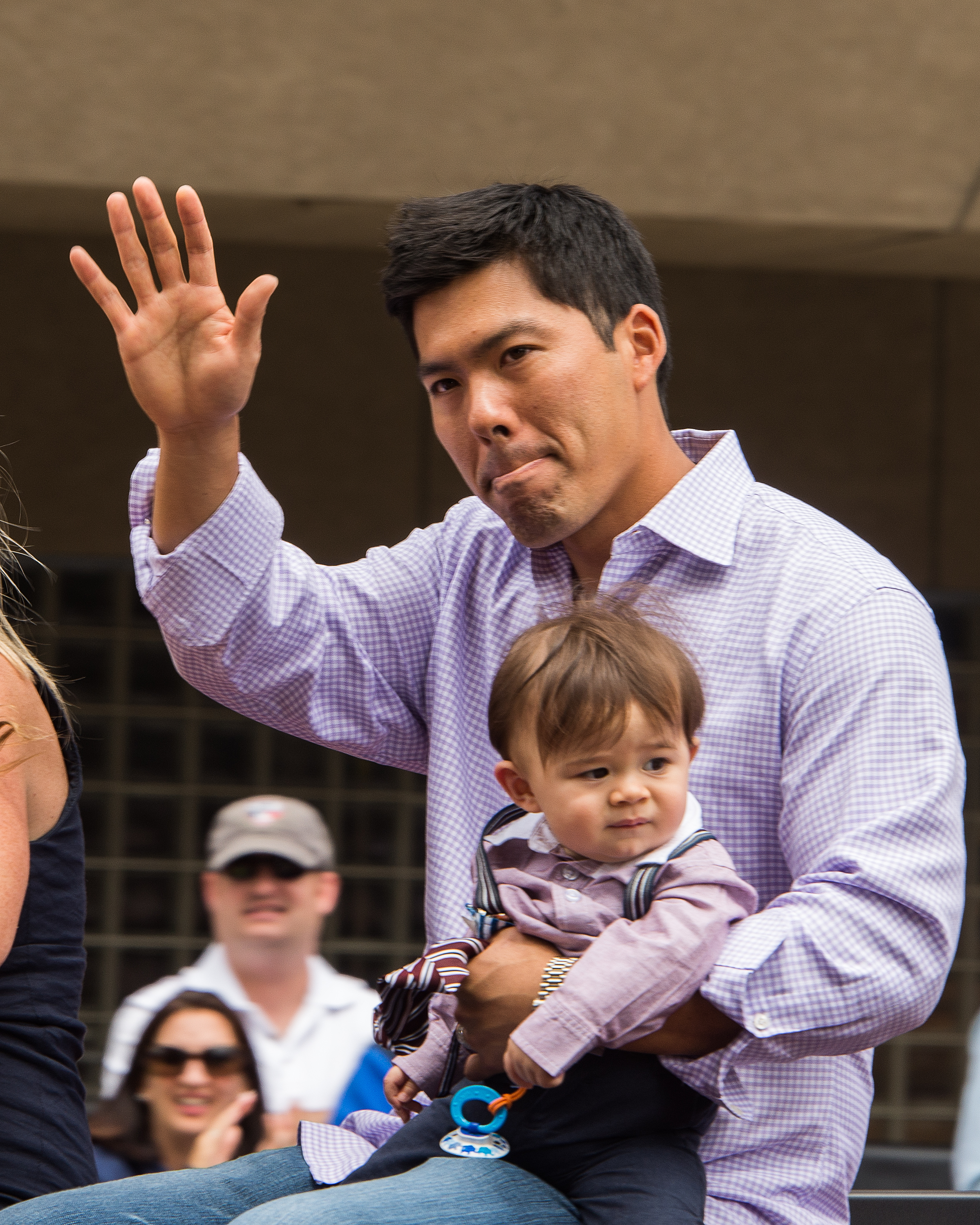 Kurt Suzuki at the 2014 MLB All-Star Red Carpet Parade